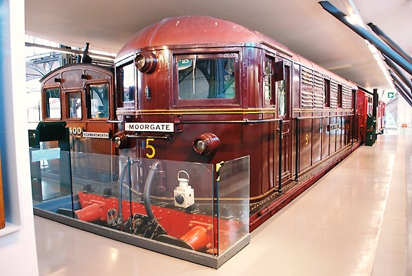 Metropolitan Railway Metropolitan Amalgamated electric 1,200 hp Bo-Bo No.5 "John Hampden" built 1922 and used on passenger services until 1961 and then on engineers' trains until 1973, when it was withdrawn. At the London Transport Museum, 06/09.